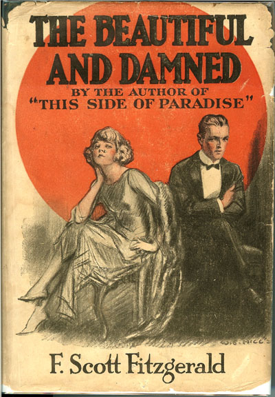 The cover of Fitzgerald's "The Beautiful and Damned"